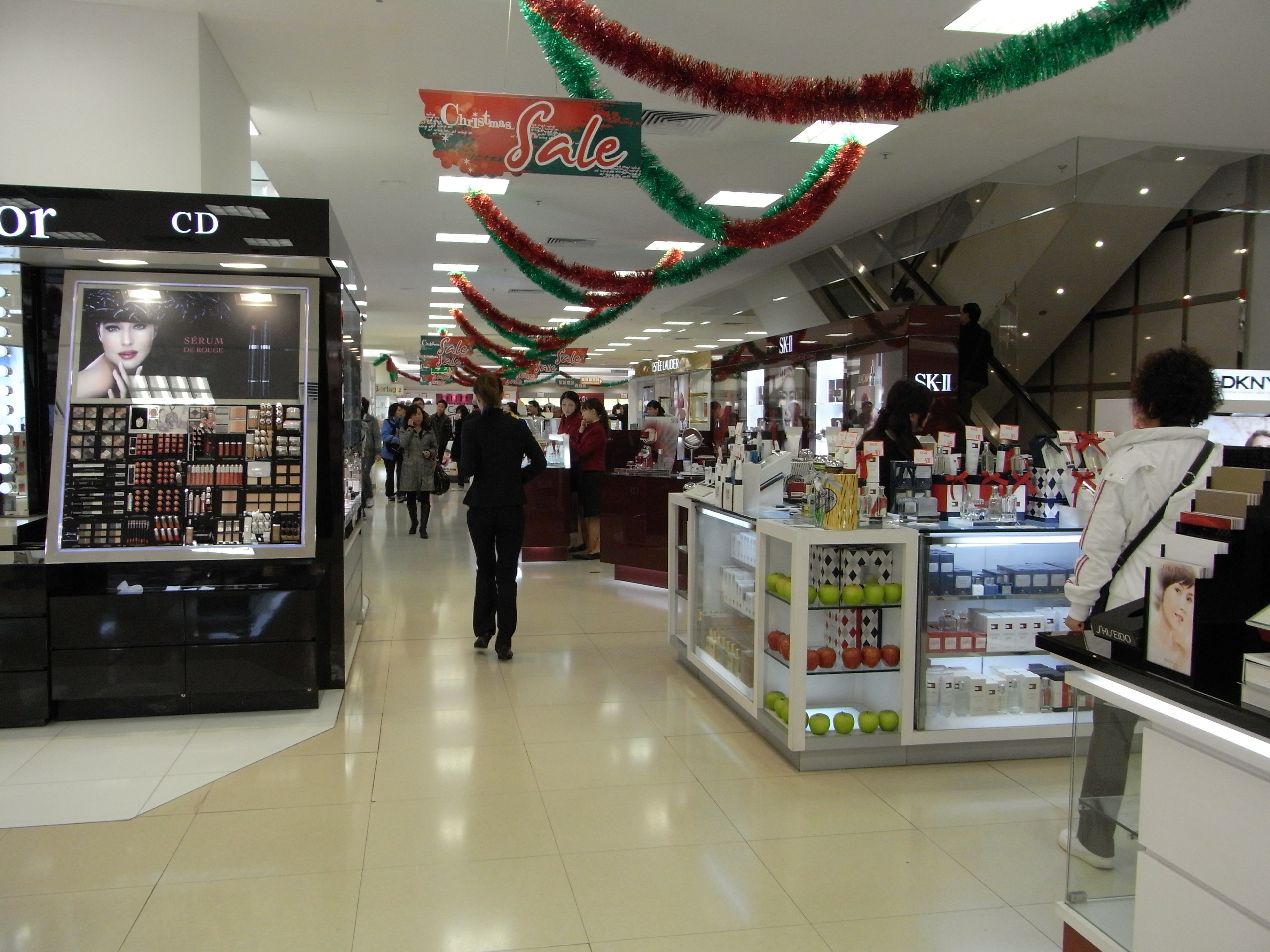 上環永安百貨